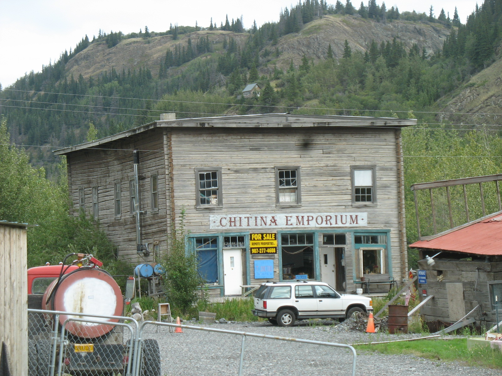 A building in Chitina Alaska